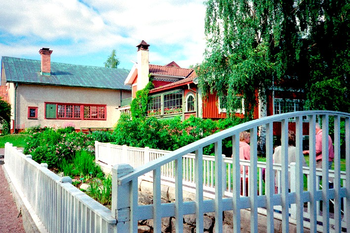 Home Lilla Hyttnäs (Little Hut) of the swedish painter Carl Larsson in Sundborn